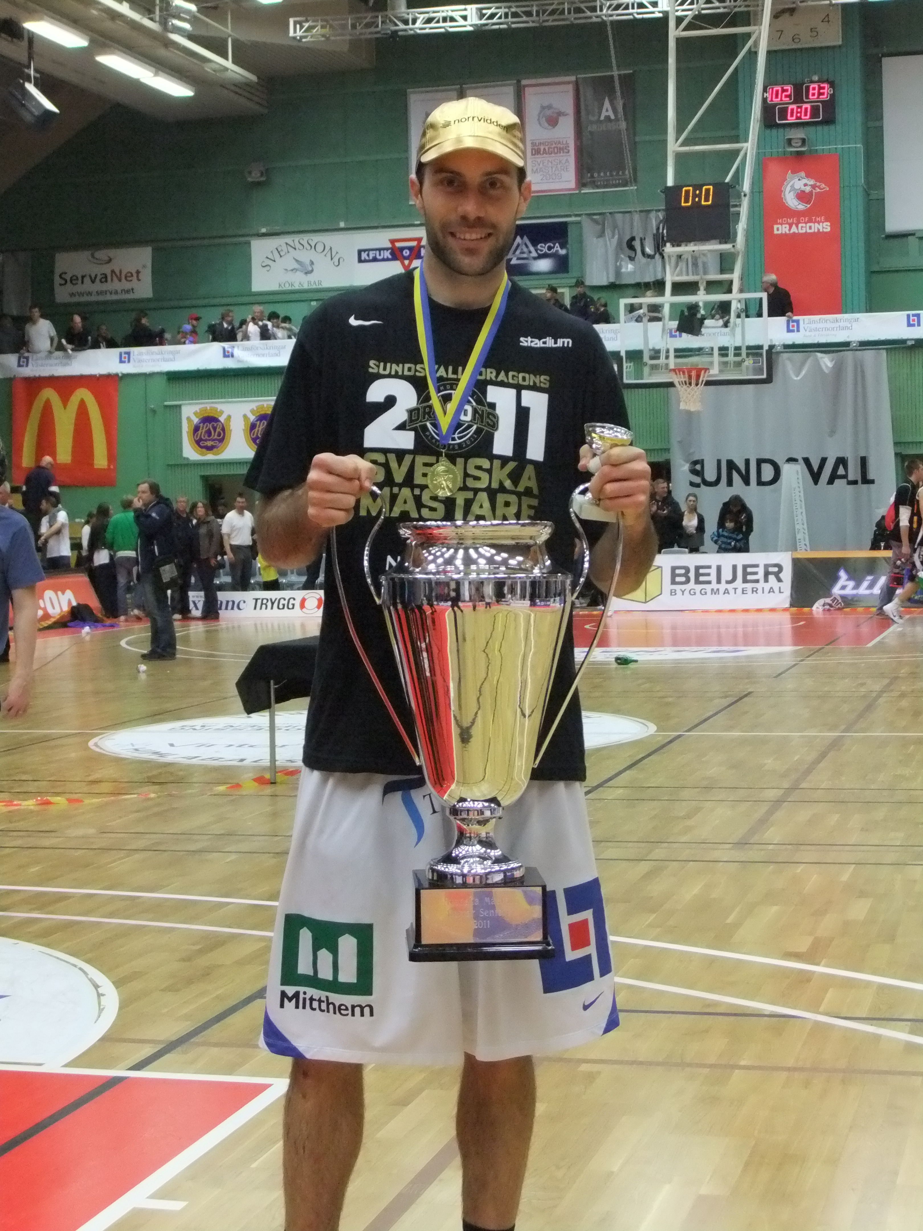 Liam Rush celebrates his second championship with Sundsvall Dragons